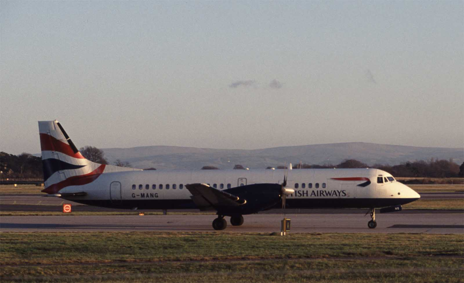 British Airways BAe ATP - registration G-MANG - photgraphed at Manchester Airport, 2003.